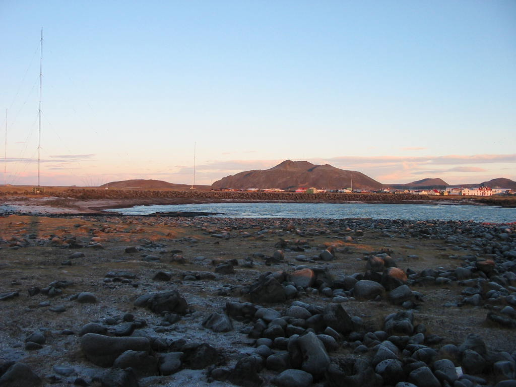 View over Grindavik, Iceland